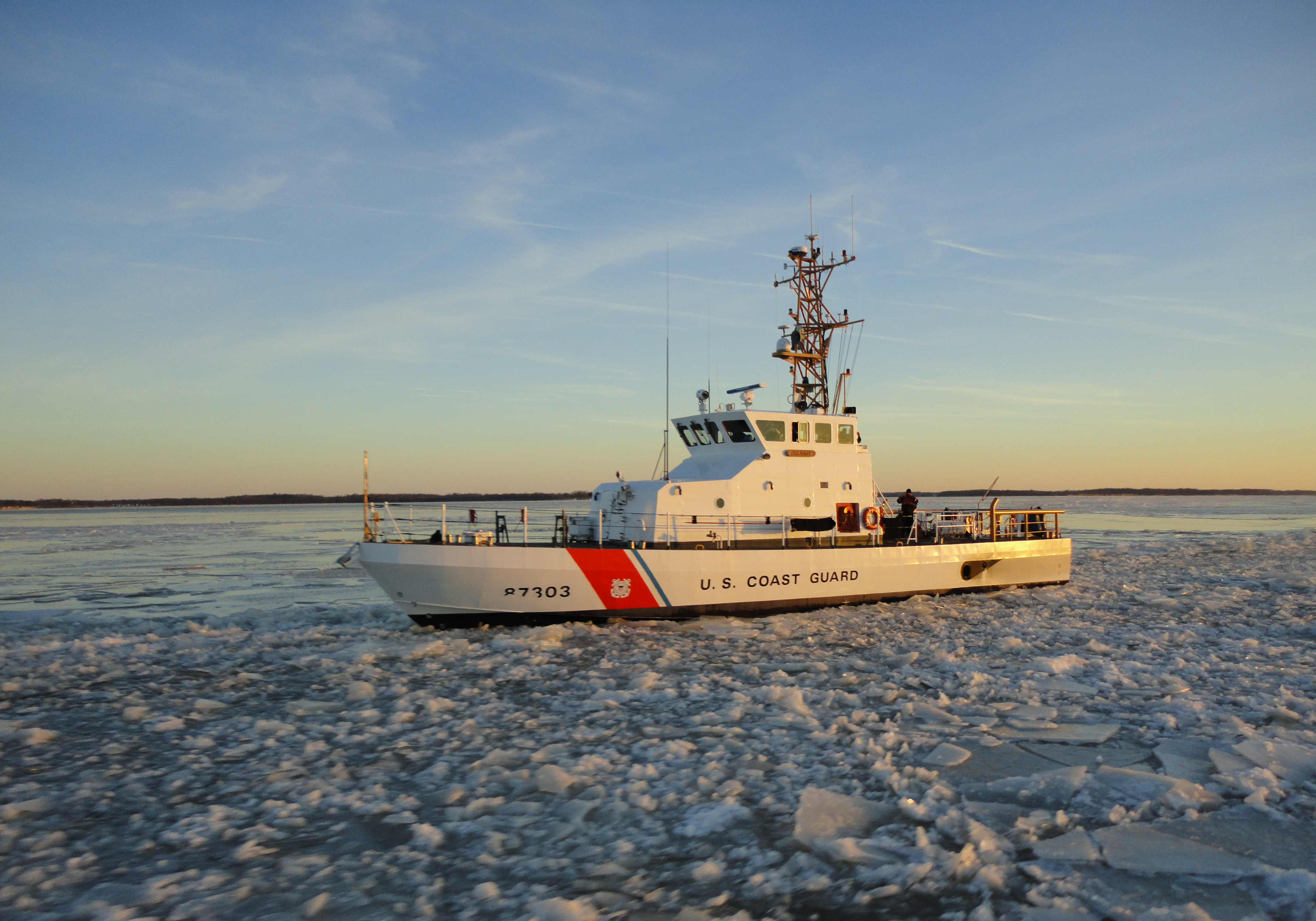 USCGC Mako transits the Cape May Canal Original caption: “The 87-foot Coast Guard Cutter Mako, homeported in Cape May, N.J., is in the Upper Chesapeake Bay Friday, Jan. 24, 2014. Ice caused the normally seven-hour transit from Baltimore to Cape May to take 30 hours to complete. (U.S. Coast Guard photo by Petty Officer 1st Class Jeff Ritter)”